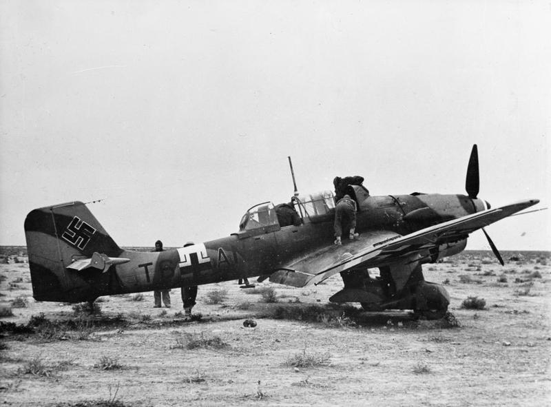 The British Army in North Africa 1941 British troops inspect a Junkers Ju 87 Stuka which made an emergency landing in the desert, December 1941.